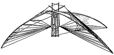 Man-powered ornithopter that was made by Belgian shoemaker Vincent de Groof's in 1874.